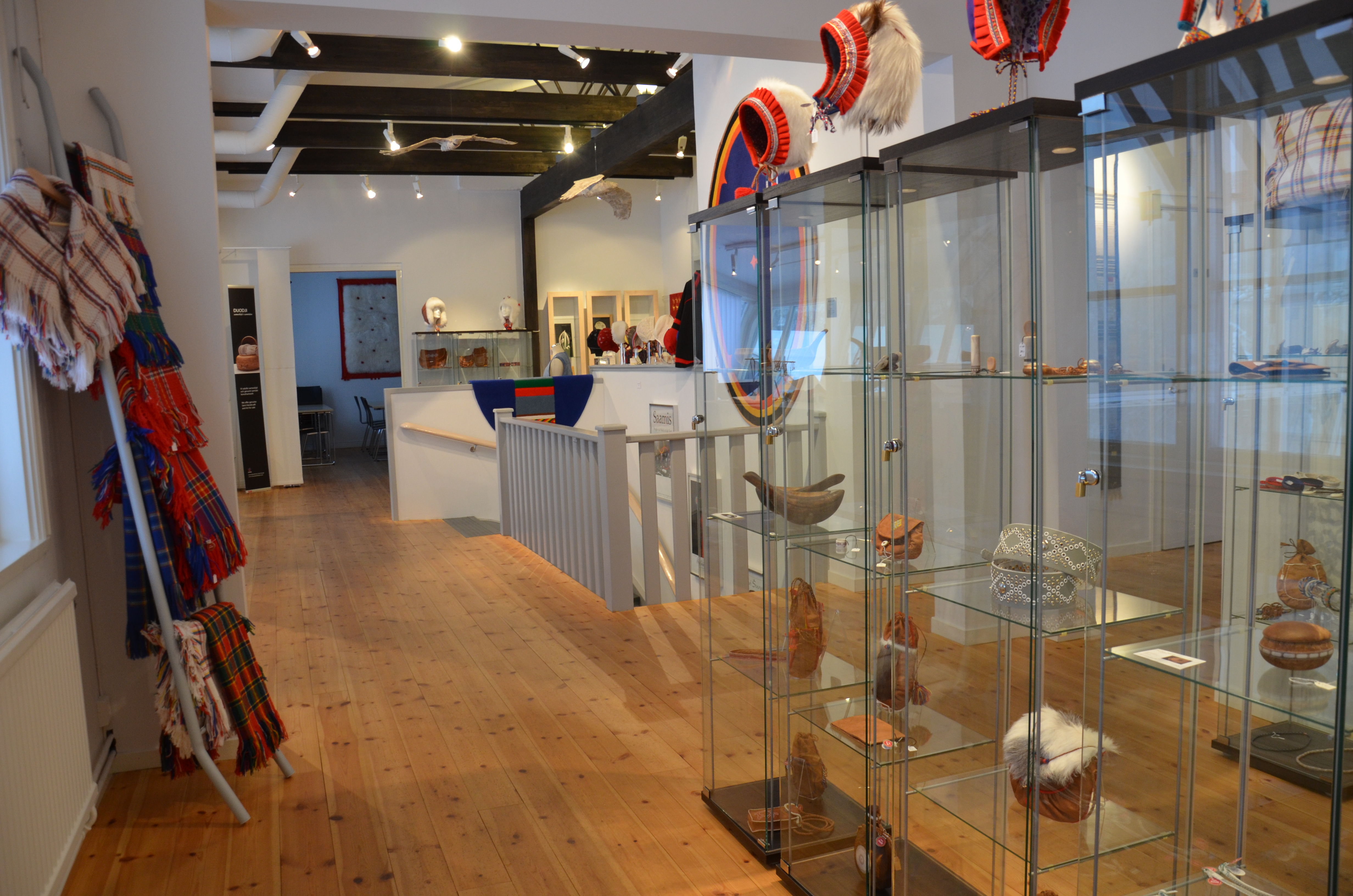 Sameslöjdstiftelsen Samiduodji, Jokkmokk, interiör